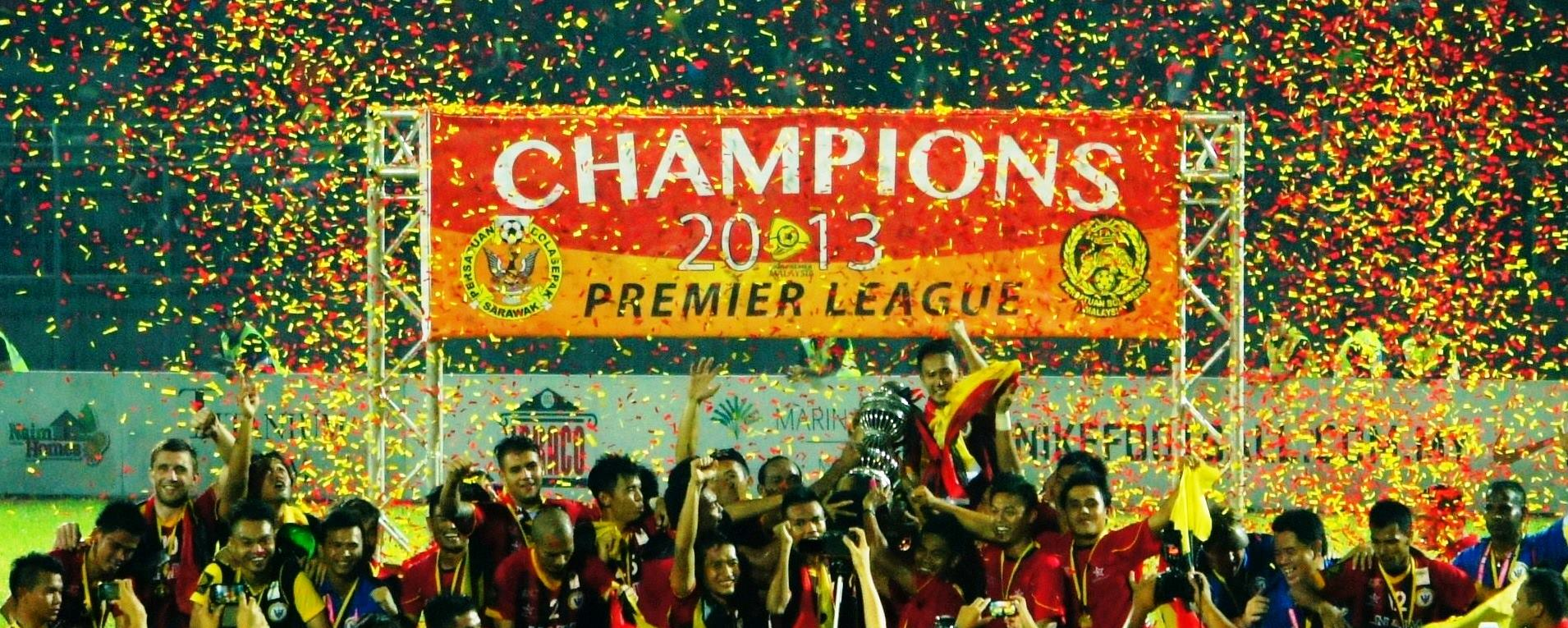 Malaysian Premier League Champions 2013- Sarawak FA